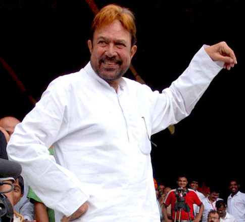 Rajesh Khanna